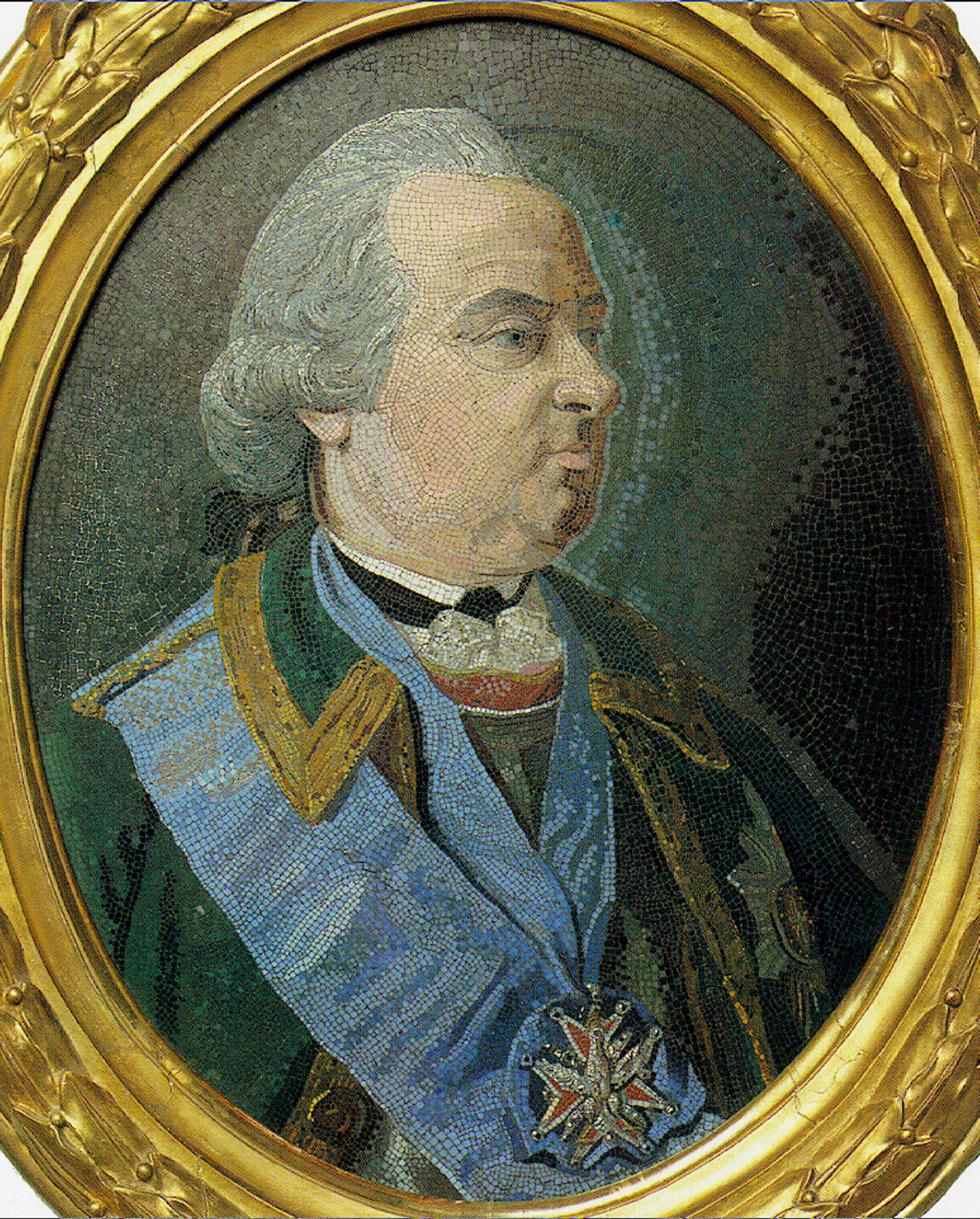 Mosaic portpait of P. I. Shuvalov. Workshop of M. Lomonosov. 1785. Hermitage.